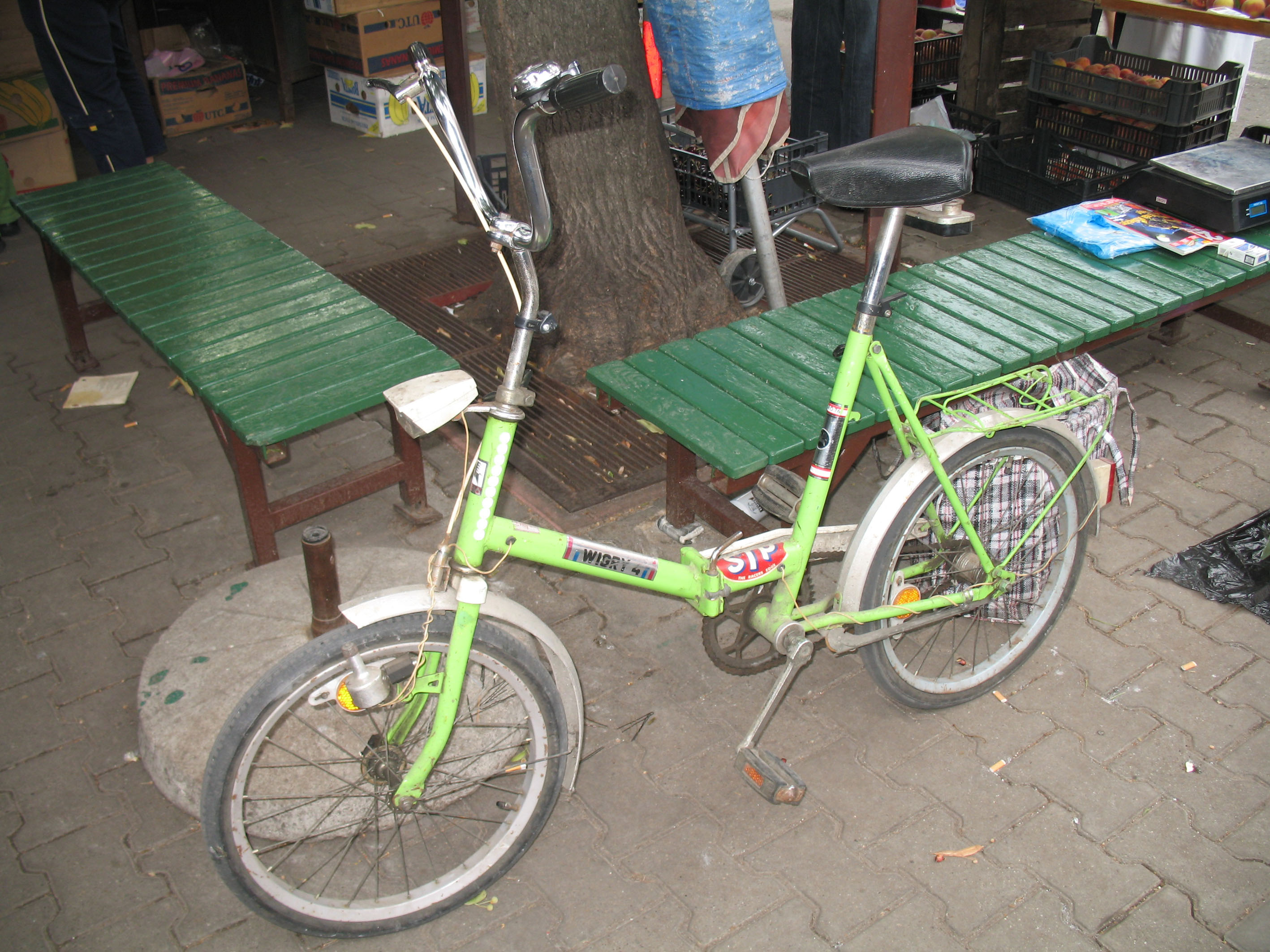 Romet Wigry 4 bicycle in Kraków, Poland.